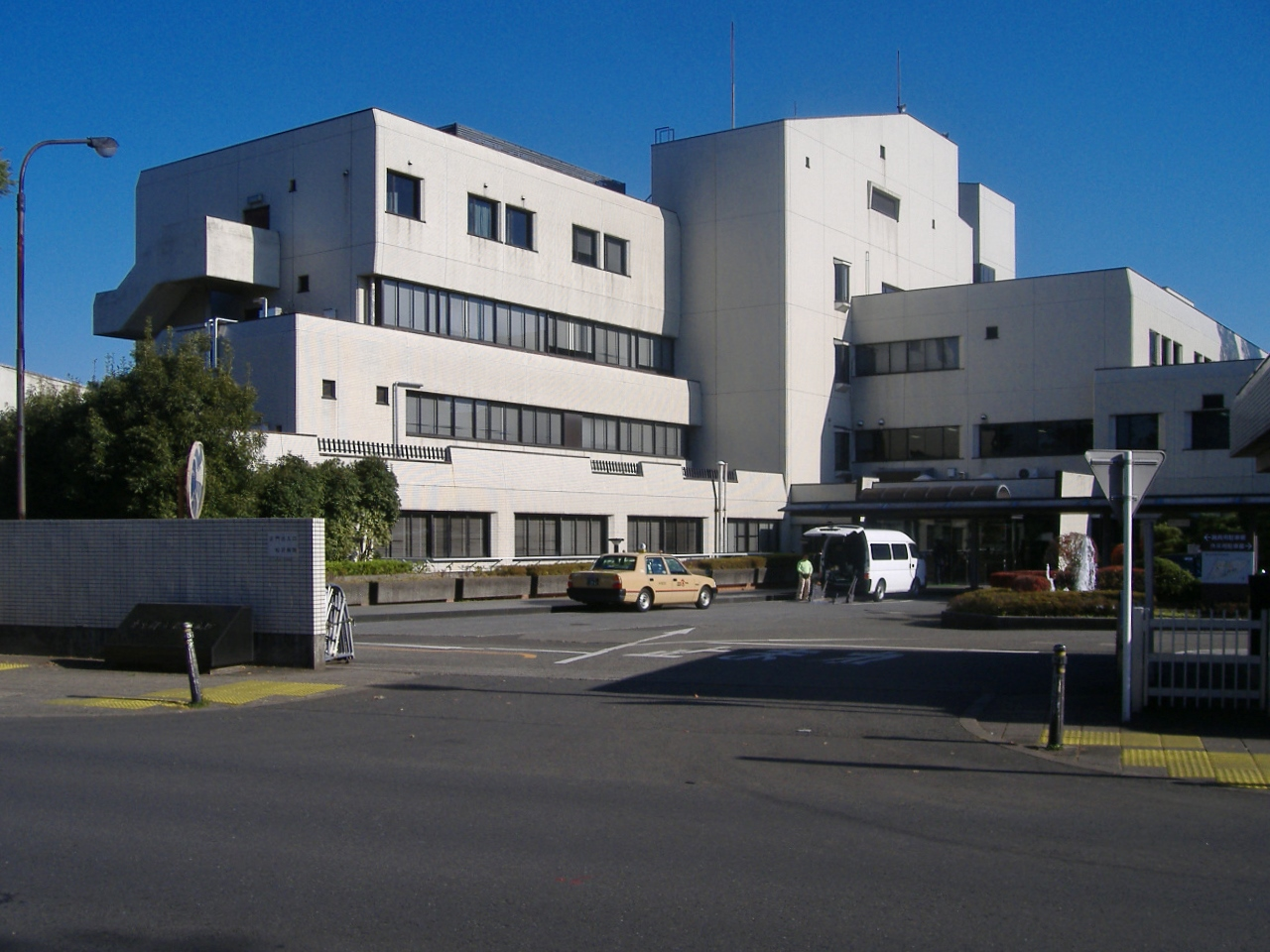 Tokyo Metropolitan Matsuzawa Hospital in Setagaya, Tokyo